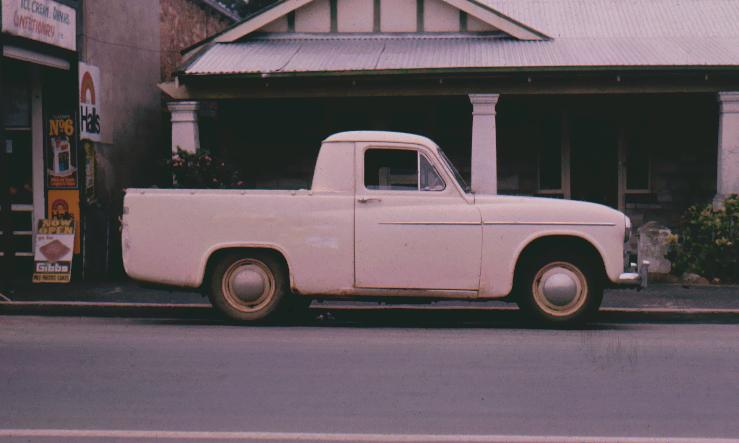 Scanned from slide, photo taken about 1974 in Victoria, Australia